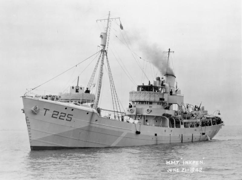 Hmt Inkpen Underway, coastal waters.